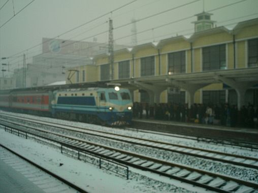 Photo of Baoding Railway Station, China